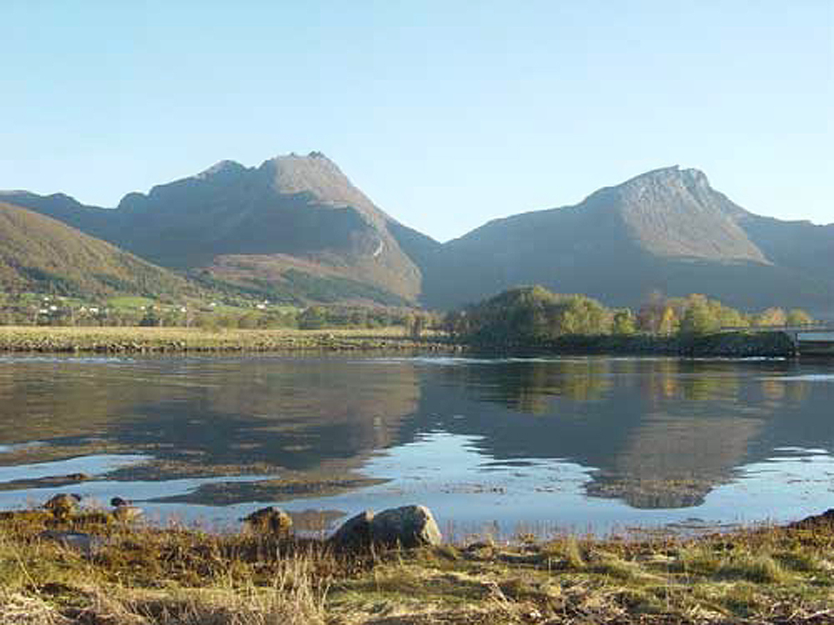 Eide and the mountains Tussan.